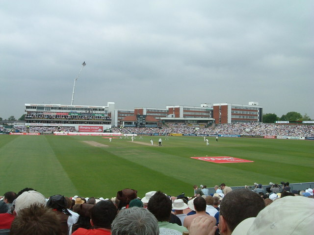 Old Trafford 3rd Test June 2007 England v West Indies day 2. Taken from stand E1.